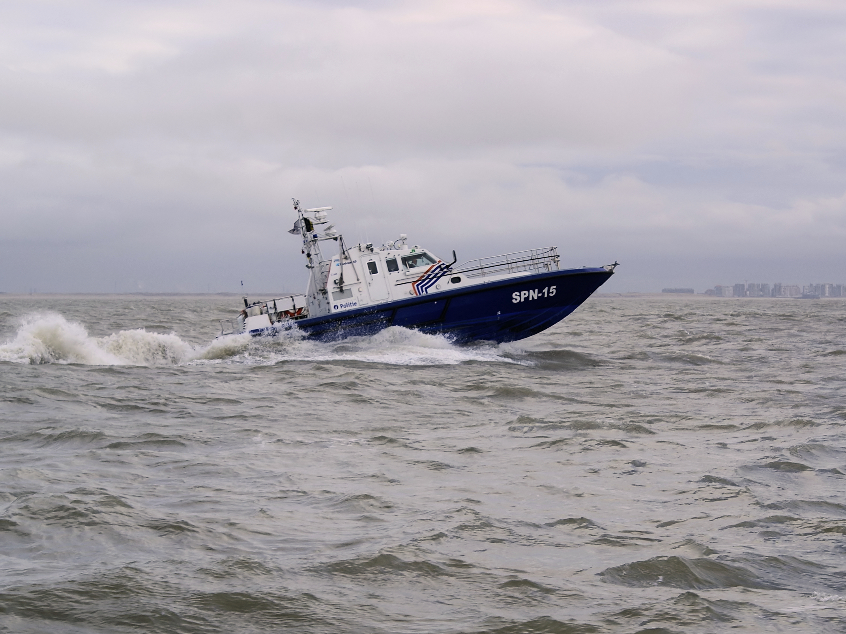 Belgian Police boat SPN-15, off Zeebrugge, Belgium